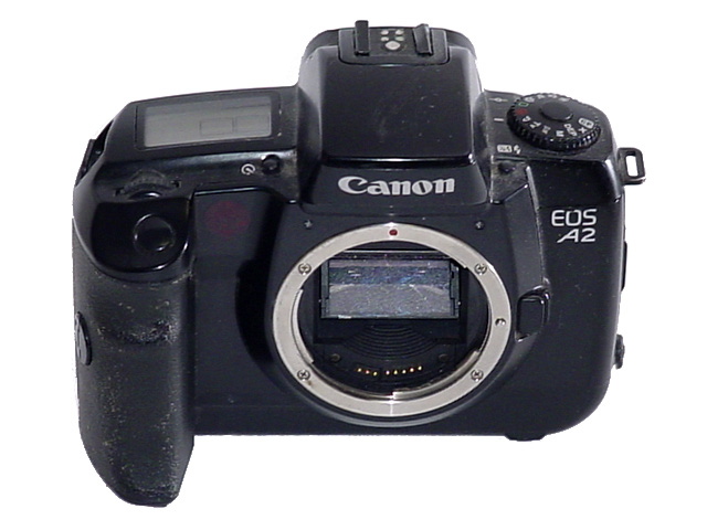 Front view of a Canon EOS A2 autofocus 135 film SLR camera